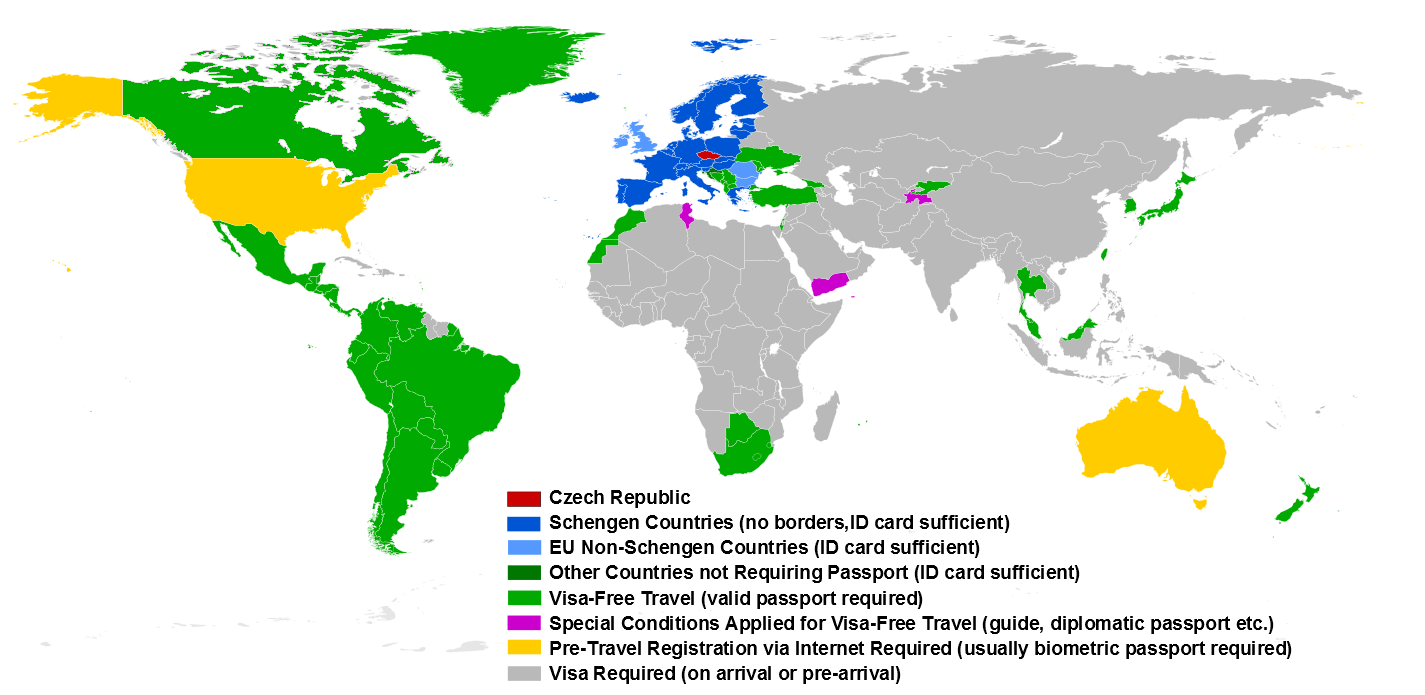 Czech Citizens Visa Requirements